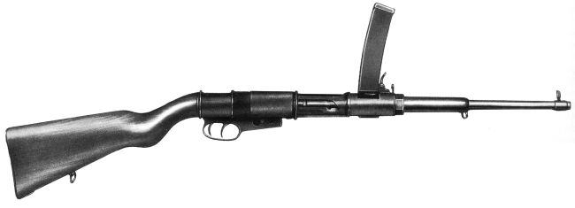 WW2 itaian submachinegun